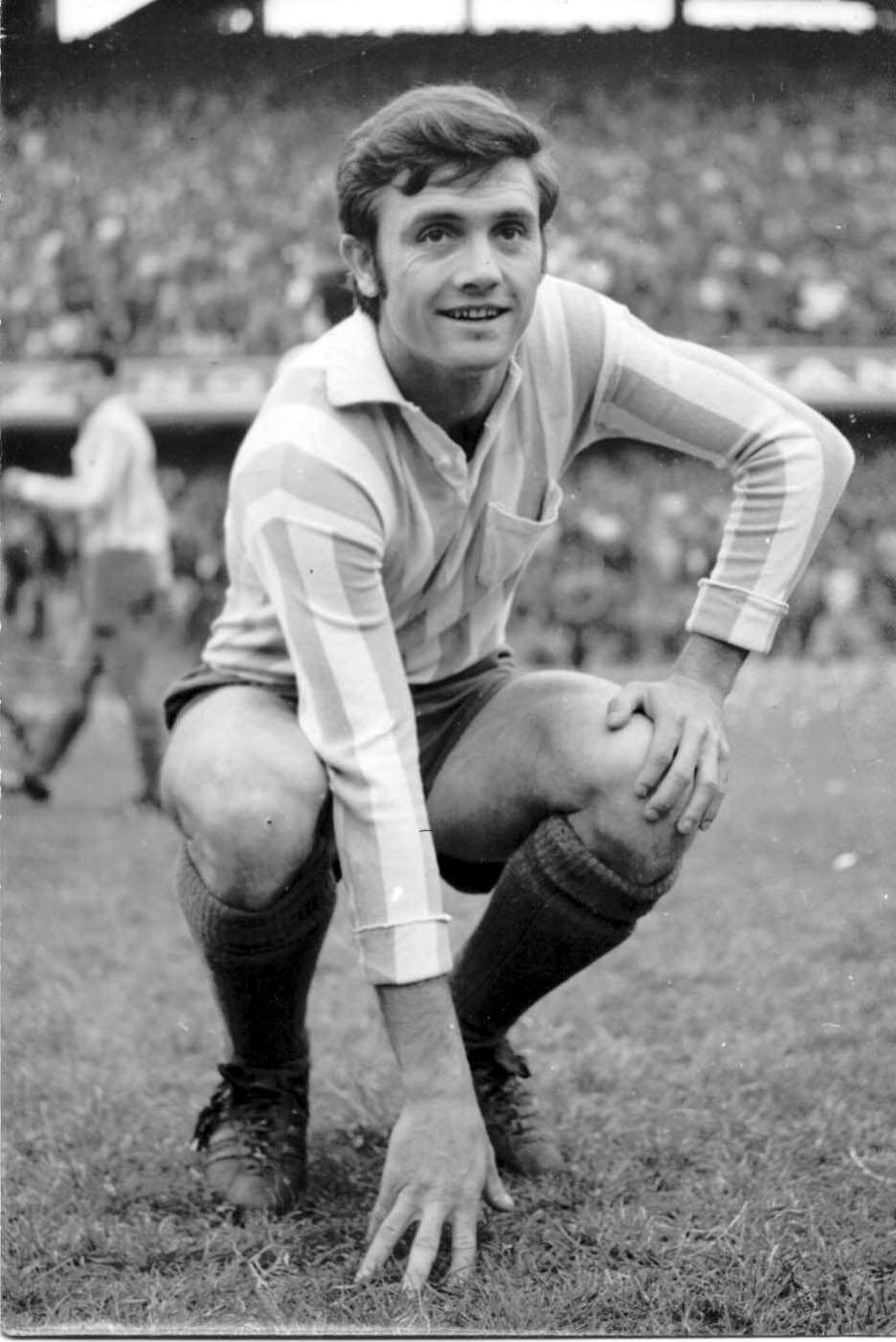 Argentine football defender, Roberto Perfumo, with Racing Club.